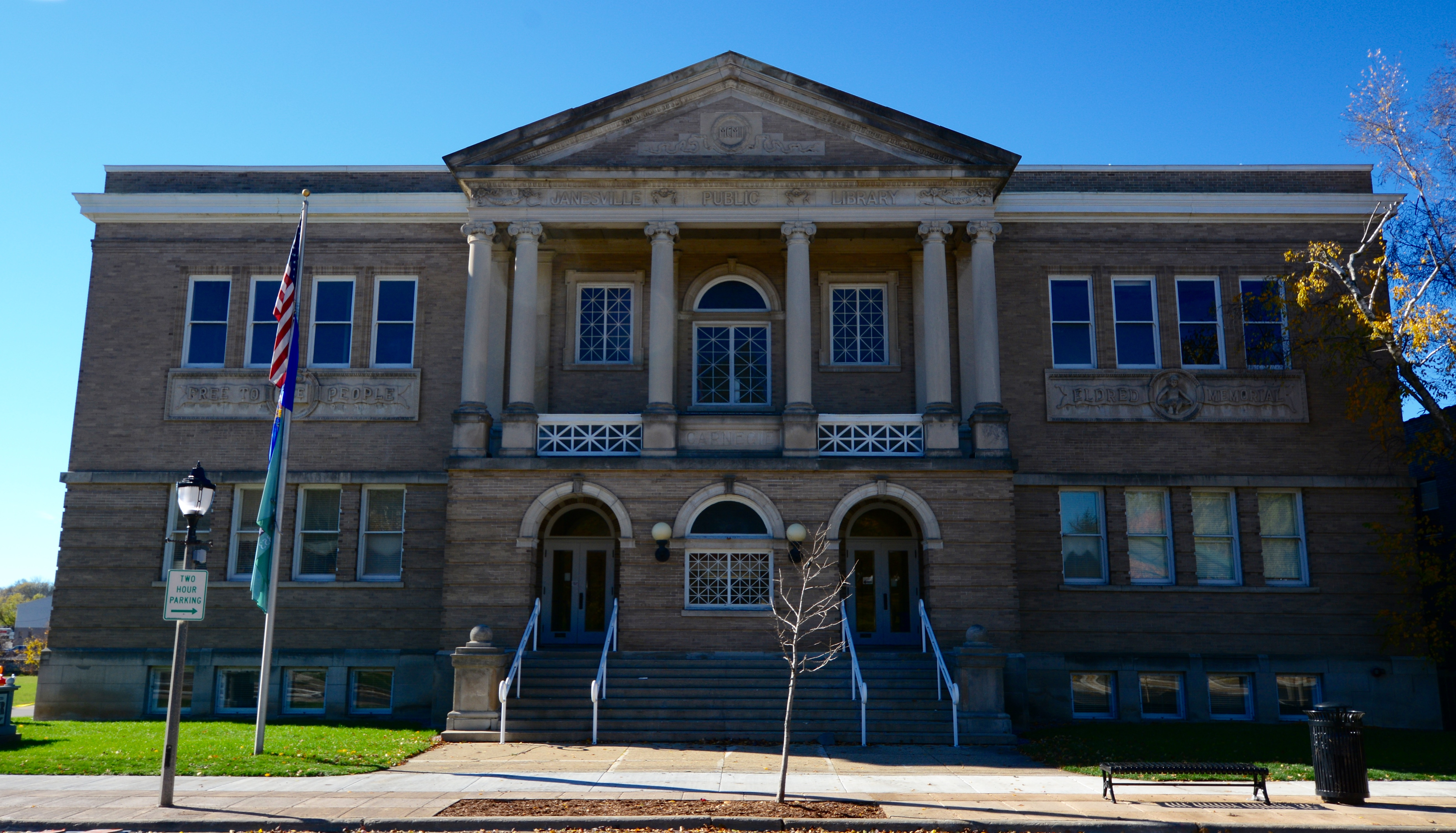 South Main Street Historic District